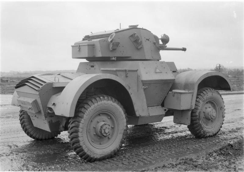 Tanks and Afvs of the British Army 1939-45 Daimler Mk I armoured car